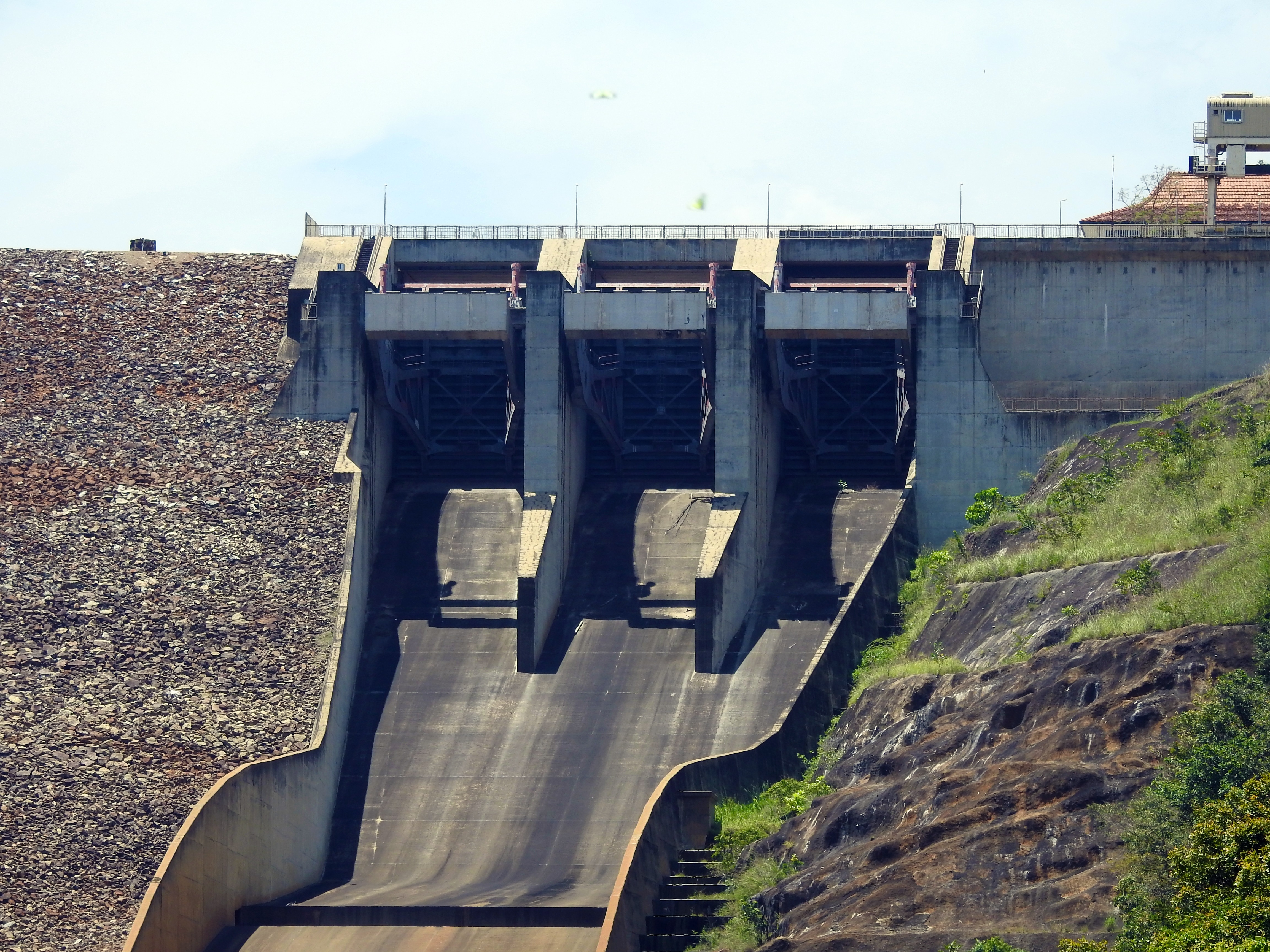 This photo was taken as part of a photo project by Wikimedia Community User Group Sri Lanka, covering current/future hydroelectric dams (and its surroundings) in the Central and Sabaragamuwa provinces of Sri Lanka. User:Rehman handled the photography, while User:Azeez and User:PasinduBR handled the logistics/planning of routes. Description of photo: Spillways of the Samanala Dam. Further information on the subject(s) of the photograph may be found in the category/ies of this file.